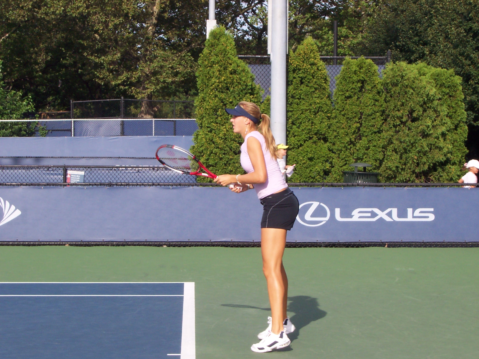 Nicole Vaidisova Practicing At The 2006 U.S. Open